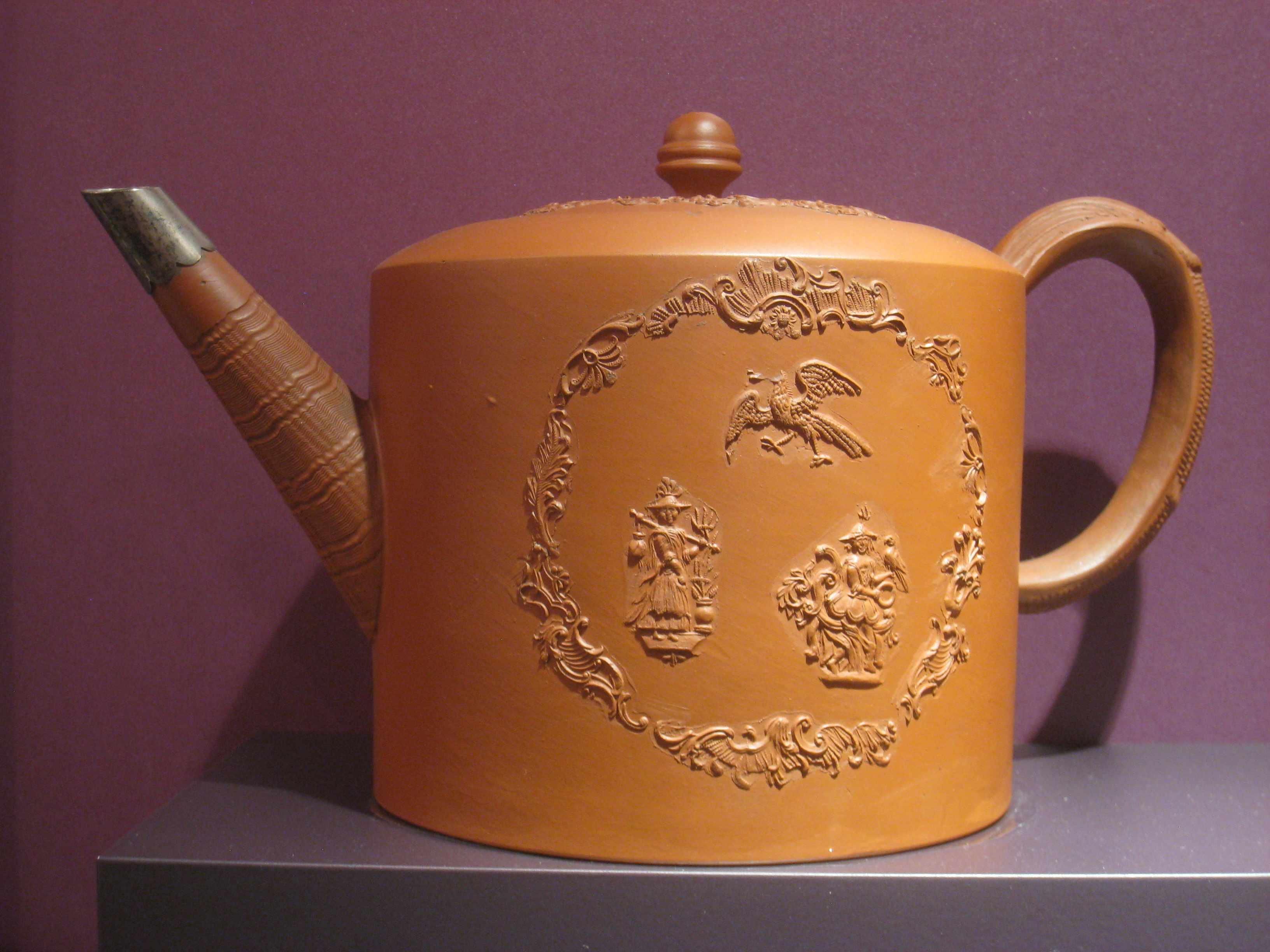 Coffee pot, unglazed, red, dried-body stoneware; Staffordshire, 1750-1775. Pottery exhibited in the DAR Museum, National Society Daughters of the American Revolution, 1776 D Street NW, Washington, DC, USA.